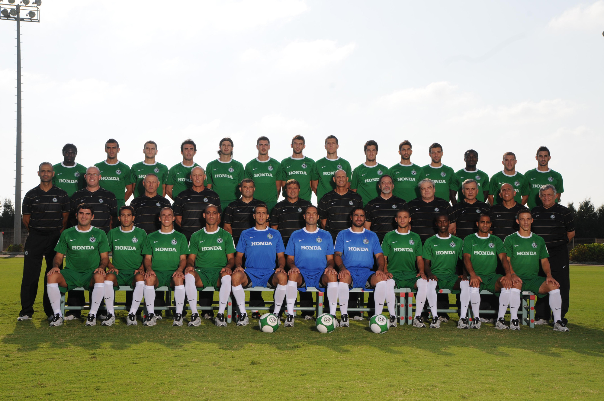 maccabi haifa fc 2012